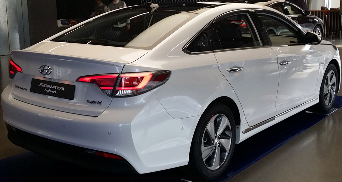 Hyundai Sonata Hybrid